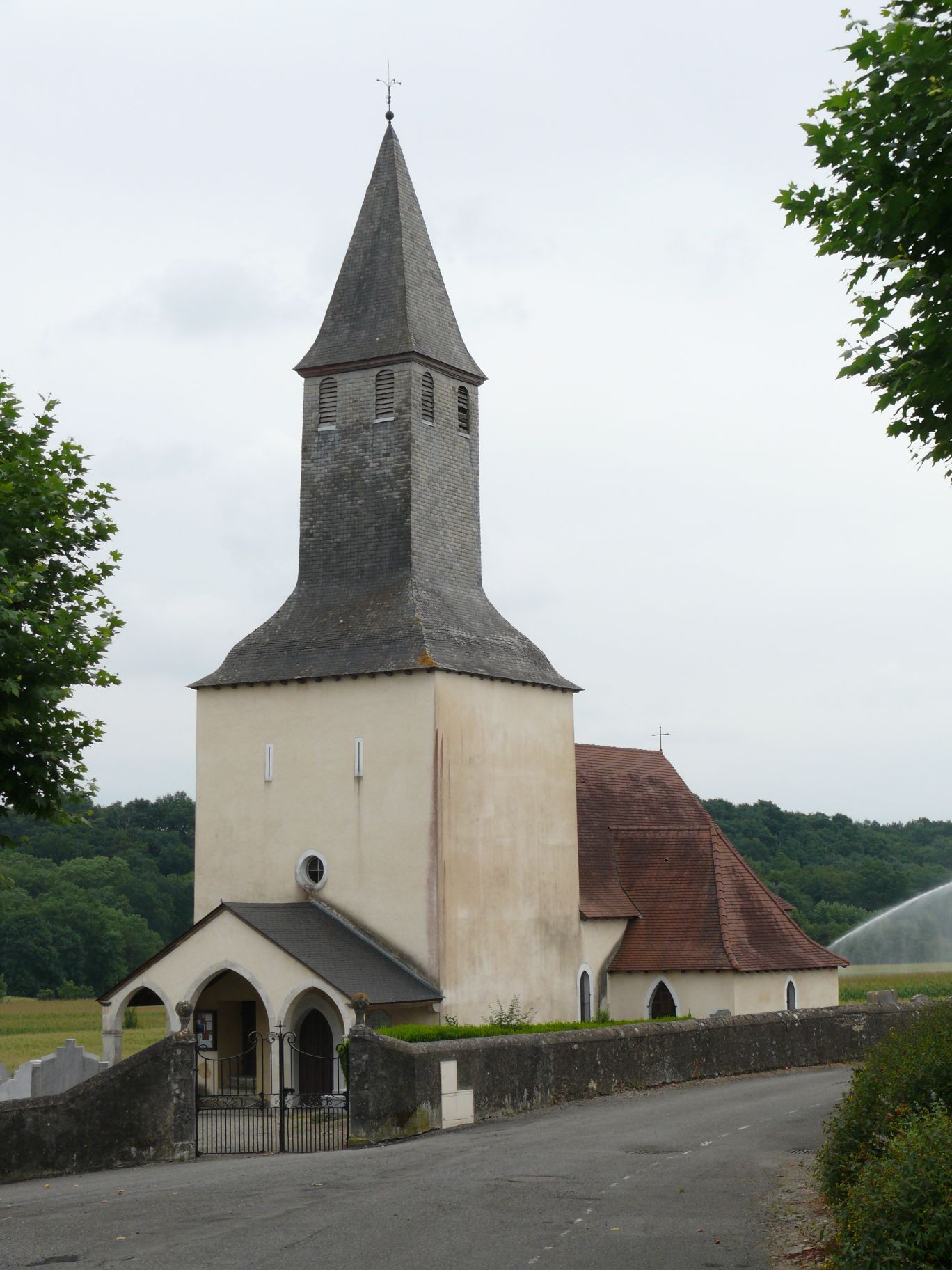 Sainte-Quitterie's church in Uzan (Pyrénées-Atlantiques, France).